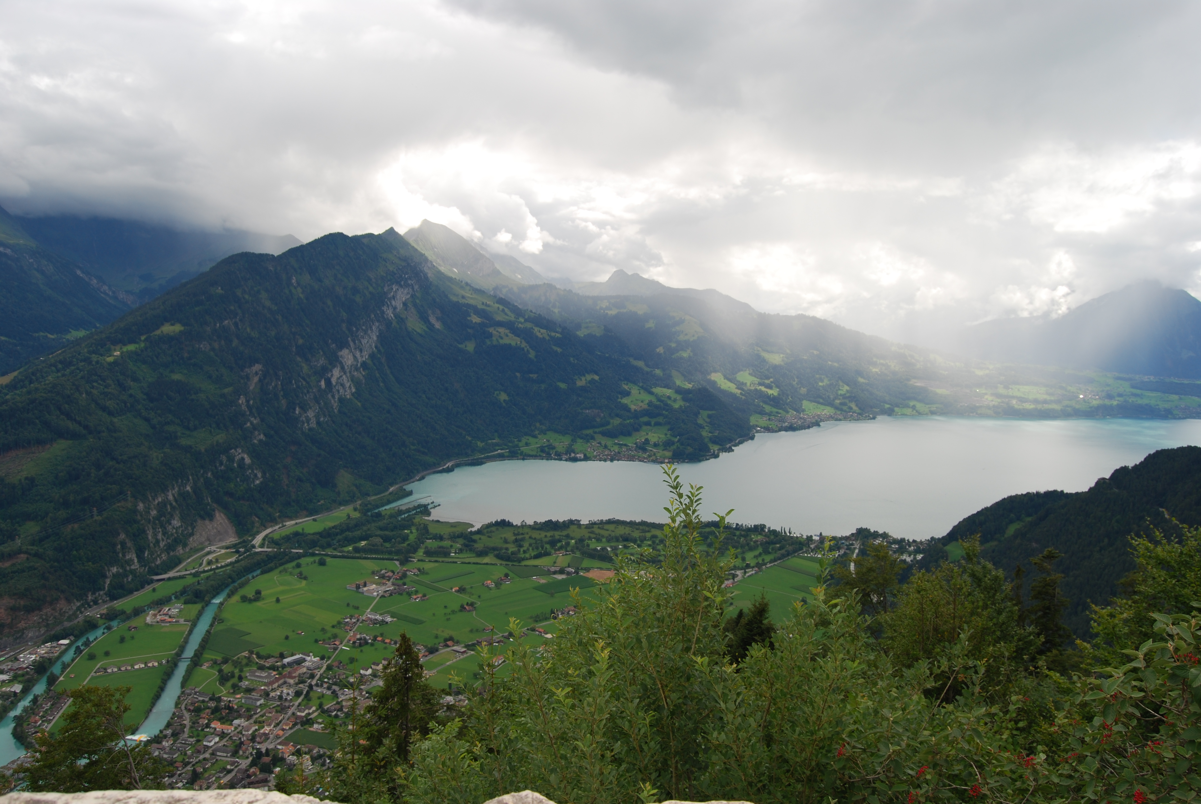 Därligen, Leissigen, Unterseen and Interlaken, canton of Bern, Switzerland